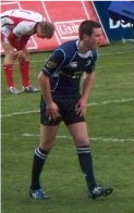 Jonathan Sexton in action at the RDS